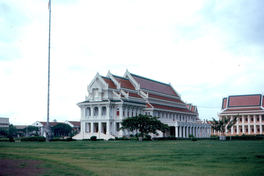 I stayed at Hotel Siam Intercontinental, which was outside the main downtown area. I walked around the afternoon of my arrival, and found Chulalongkorn University. This is the main building. I was surprised to see some students playing soccer. Chulalongkorn University was named after King Rama V. It was founded in 1917 by his son and successor, King Rama VI. Chulalongkorn (1853-1910, reigned 1868-1910) was the young prince in "Anna and the King of Siam" and the musical "The King and I."